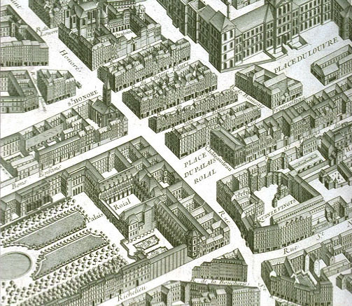 Palais-Royal and its small Place before the Rue de Rivoli was opened, Detail of an engraved map of Paris, 18th century